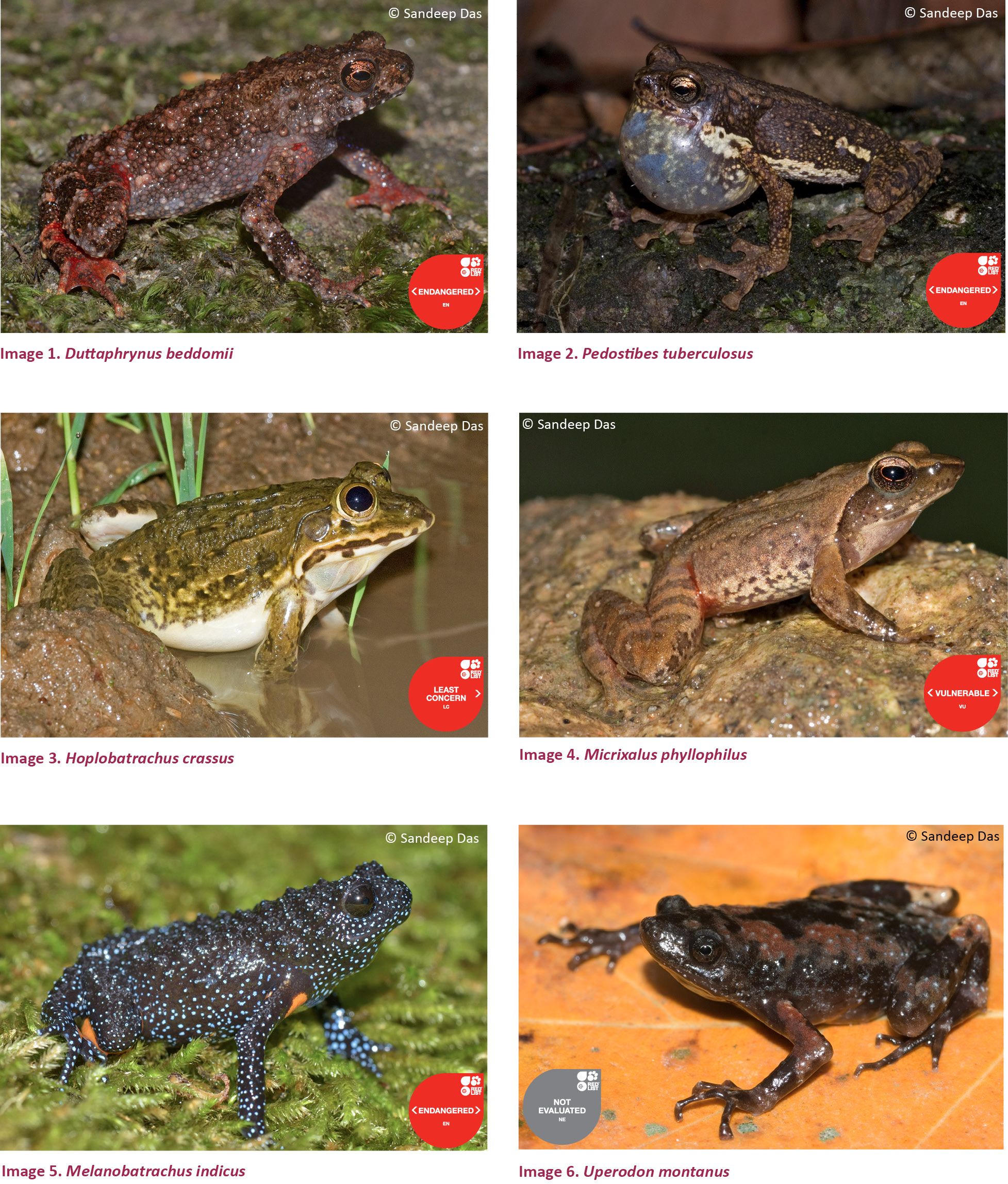 Photos of of amphibians of Kerala, India.